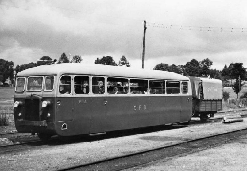 De Dion-Bouton railcar class ND number 204 of the Chemins de Fer Départementaux (CFD) at the route network Vivarais.